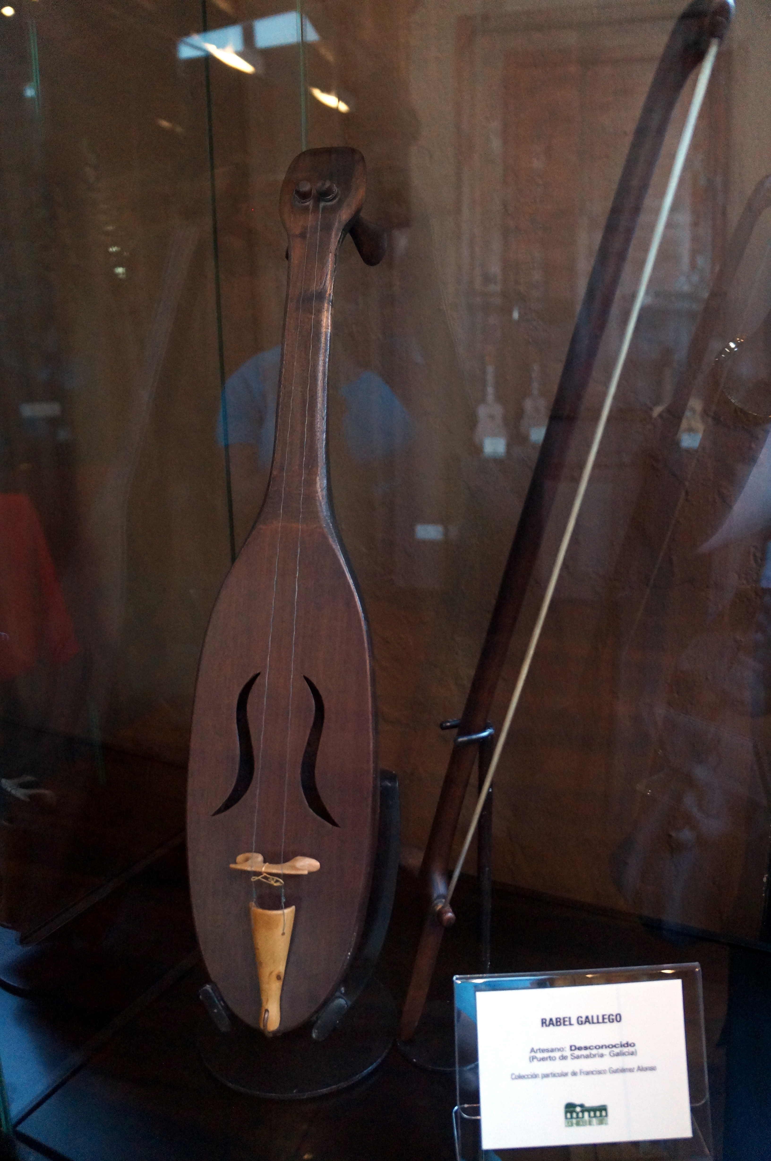 Galician Rabel at the Casa Museo Del Timple, Lanzarote, Spain.